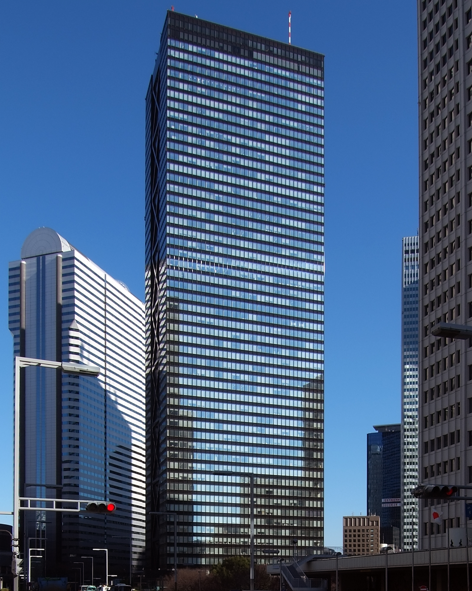 Shinjuku Mitsui Building, Shinjyuku-ku Tokyo Japan, deshin by Mitsui Fudosan+Nihonsekkei in 1974.